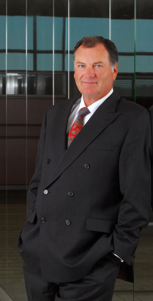 Bruce Simmonds, CEO of Pacific Links International